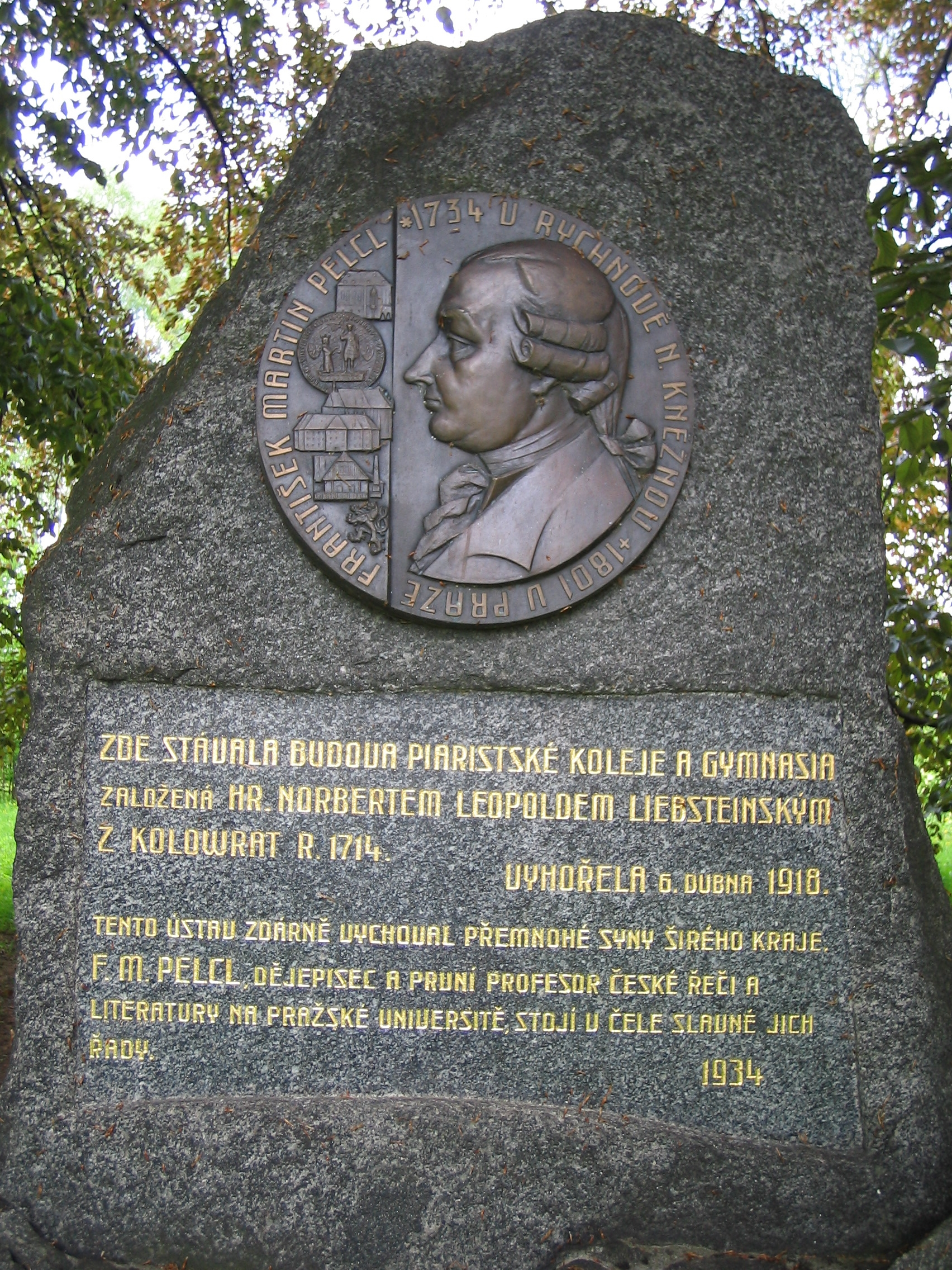 Memorial to František Matěj Pelcl in Rychnov nad Kněžnou